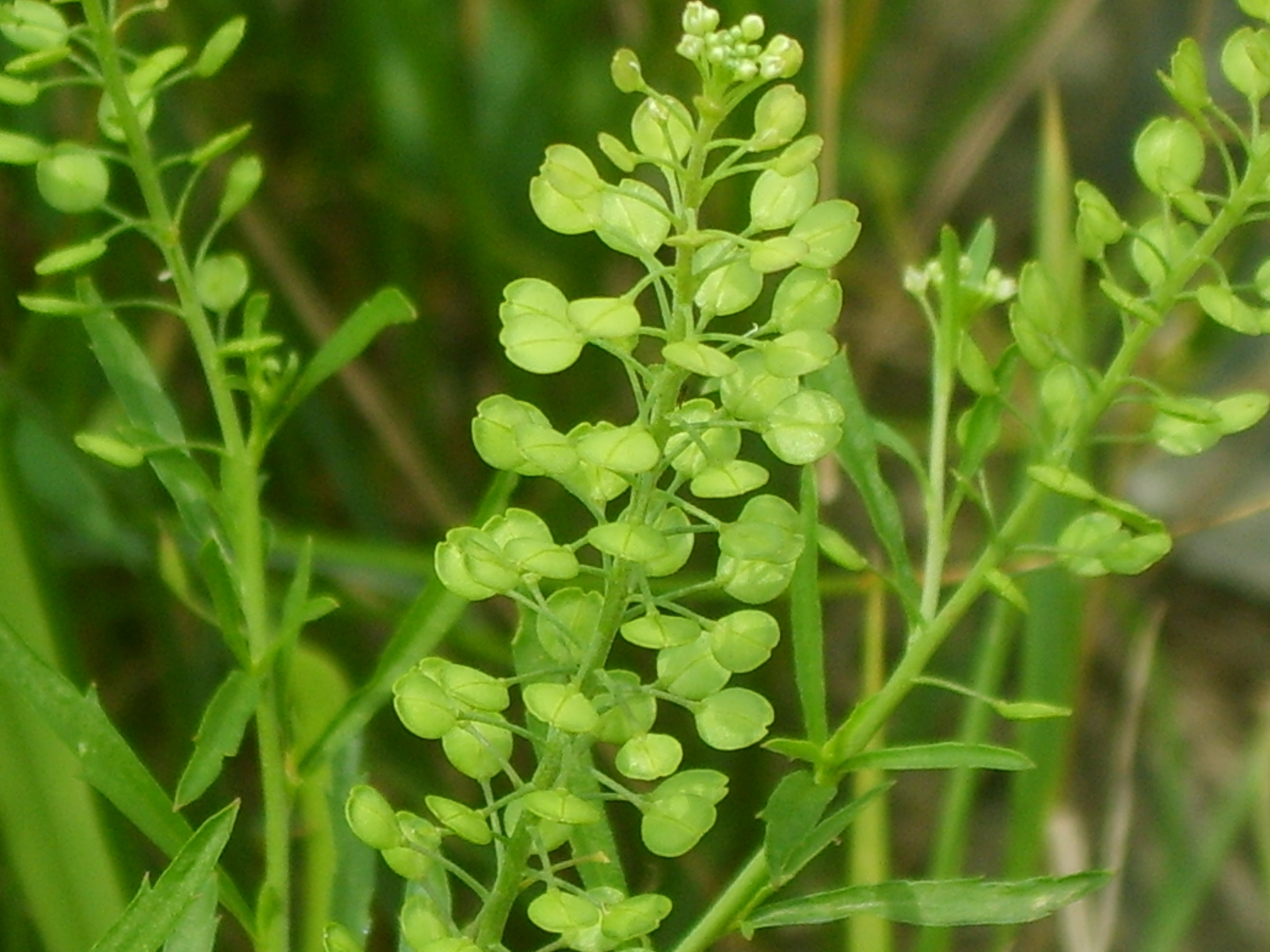 Lepidium apetalum's fruits in Incheon, Korea